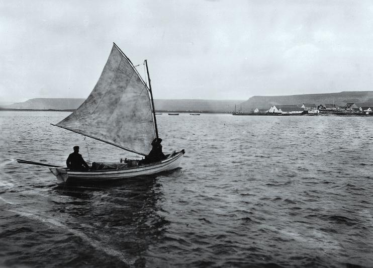 Photograph, Blanc-Sablon, Quebec, 1908, William McFarlane Notman, Silver salts on film (nitrate ?) - Gelatin silver process - 12 x 17 cm